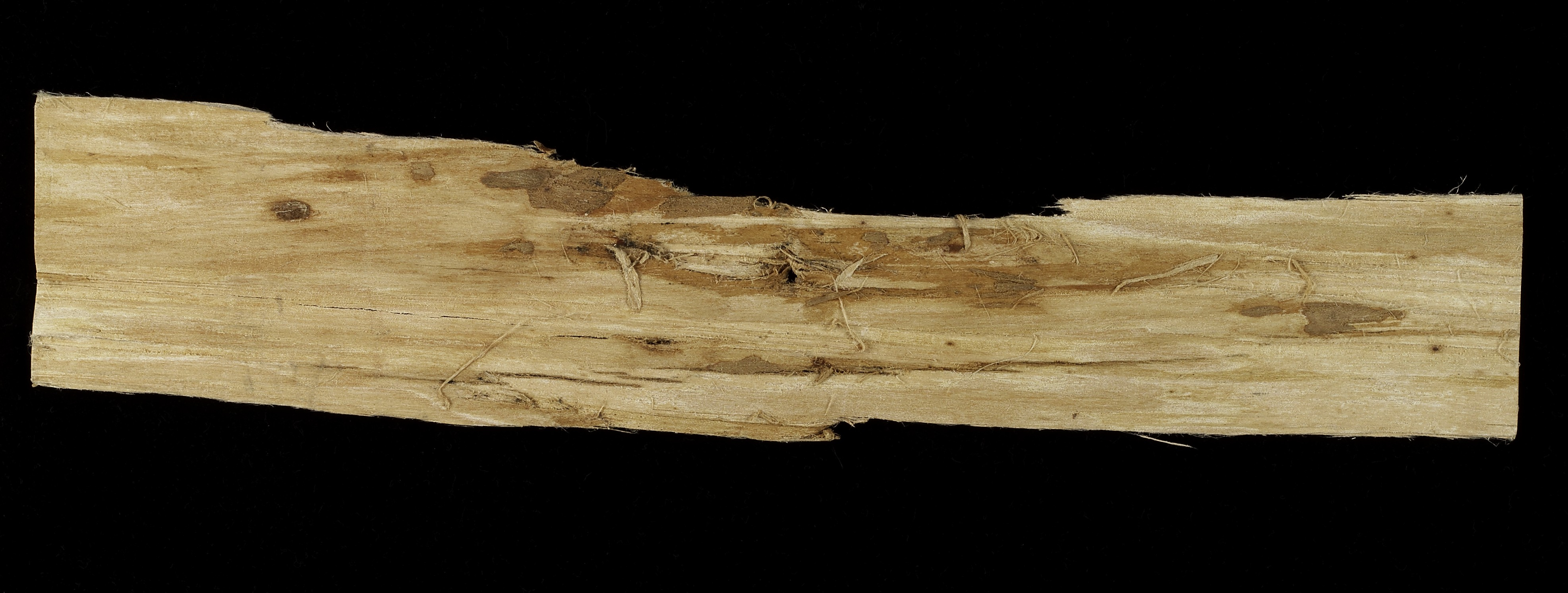 Slippery Elm Bark. Sold as an abortifacient. Archives & Manuscripts Keywords: Abortion; Abortifacient; Abortifacient Agents